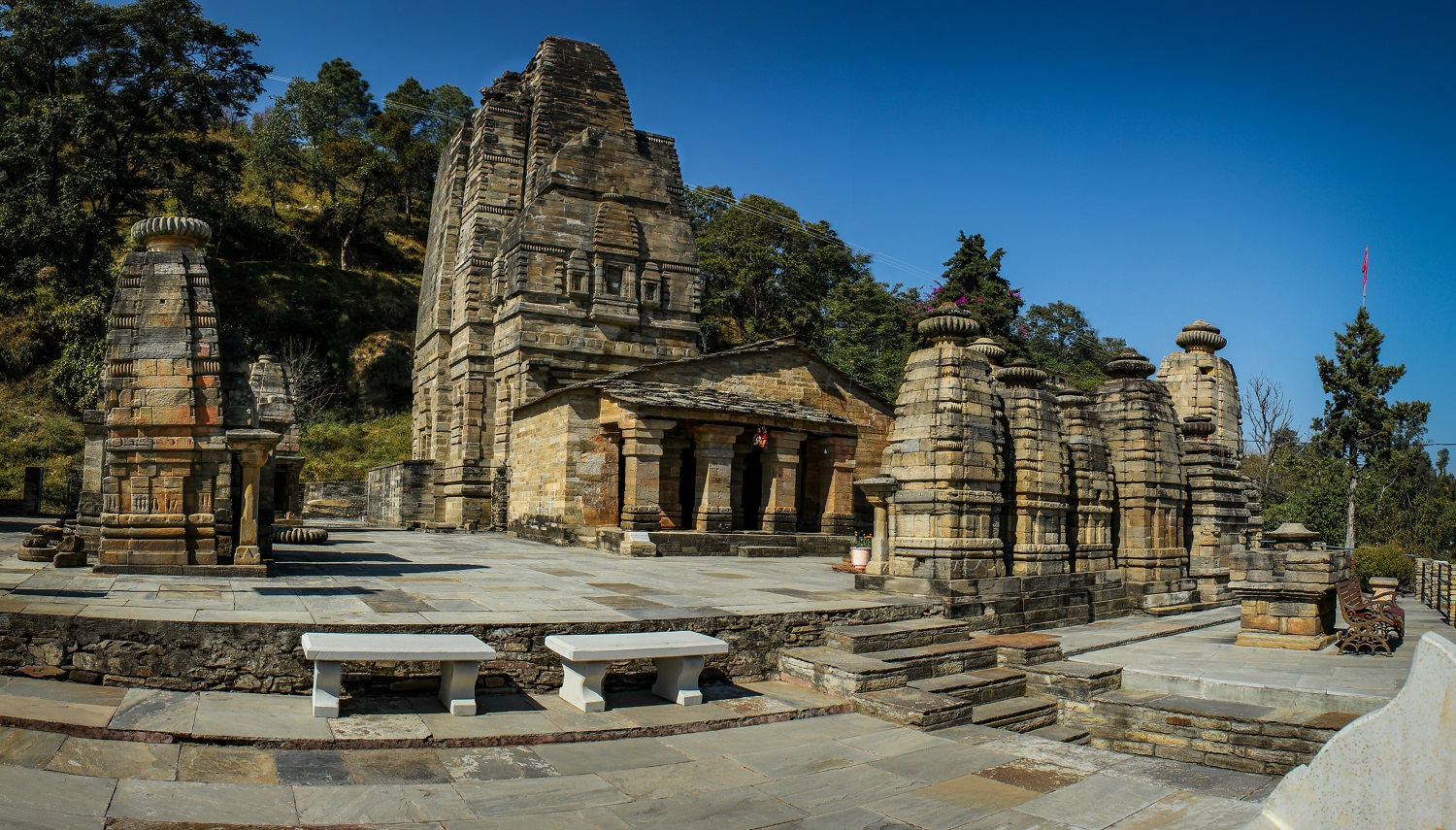 Front view of the sun temple at Katarmal, Almora, Uttarakhand.